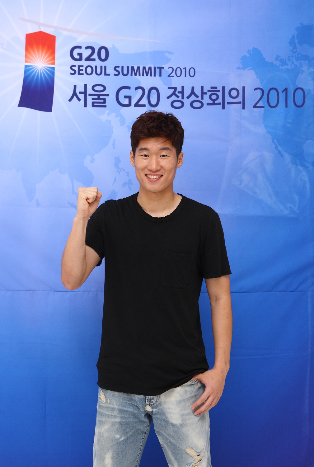 Park Ji-sung, professional footballer and former Manchester United player, was chosen as ambassador to represent the G20 Seoul Summit.